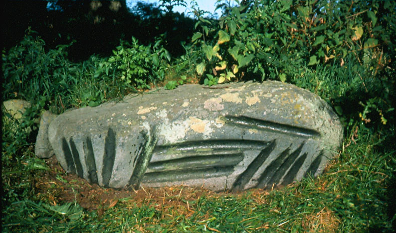 Grooves on stone as part of a prehistoric grave. Bursgvik, Gotland, Sweden.